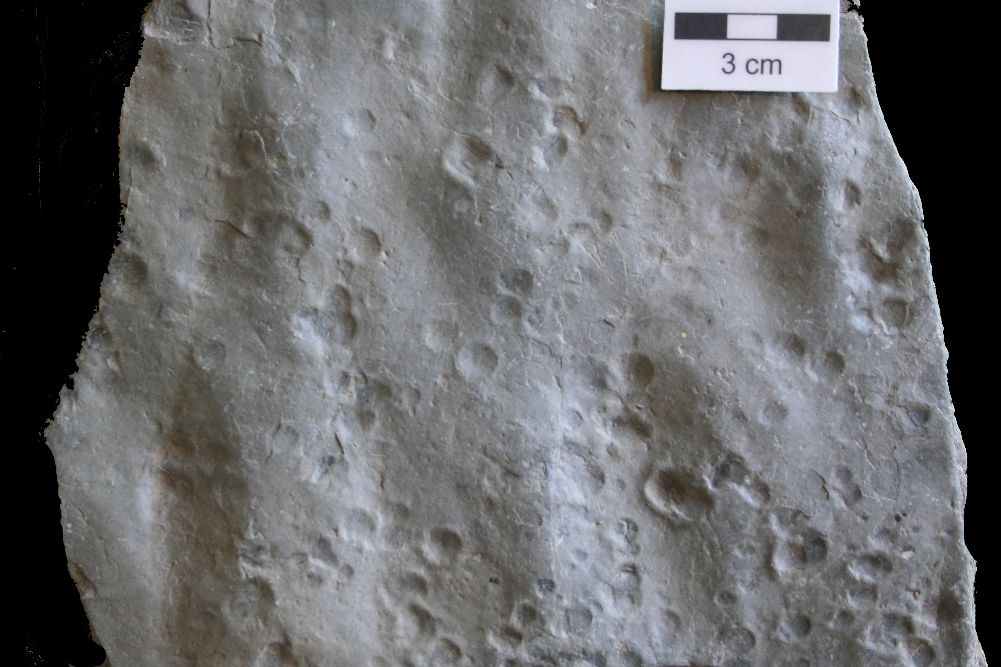 Fossilized raindrop impressions on the top of a wave-rippled sandstone from the Horton Bluff Formation (Mississippian), near Avonport, Nova Scotia. Specimen is from the collection of Chris Mansky and housed at the Blue Beach Fossil Museum, 127 Blue Beach Road, Hantsport, Nova Scotia, B0P 1P0.